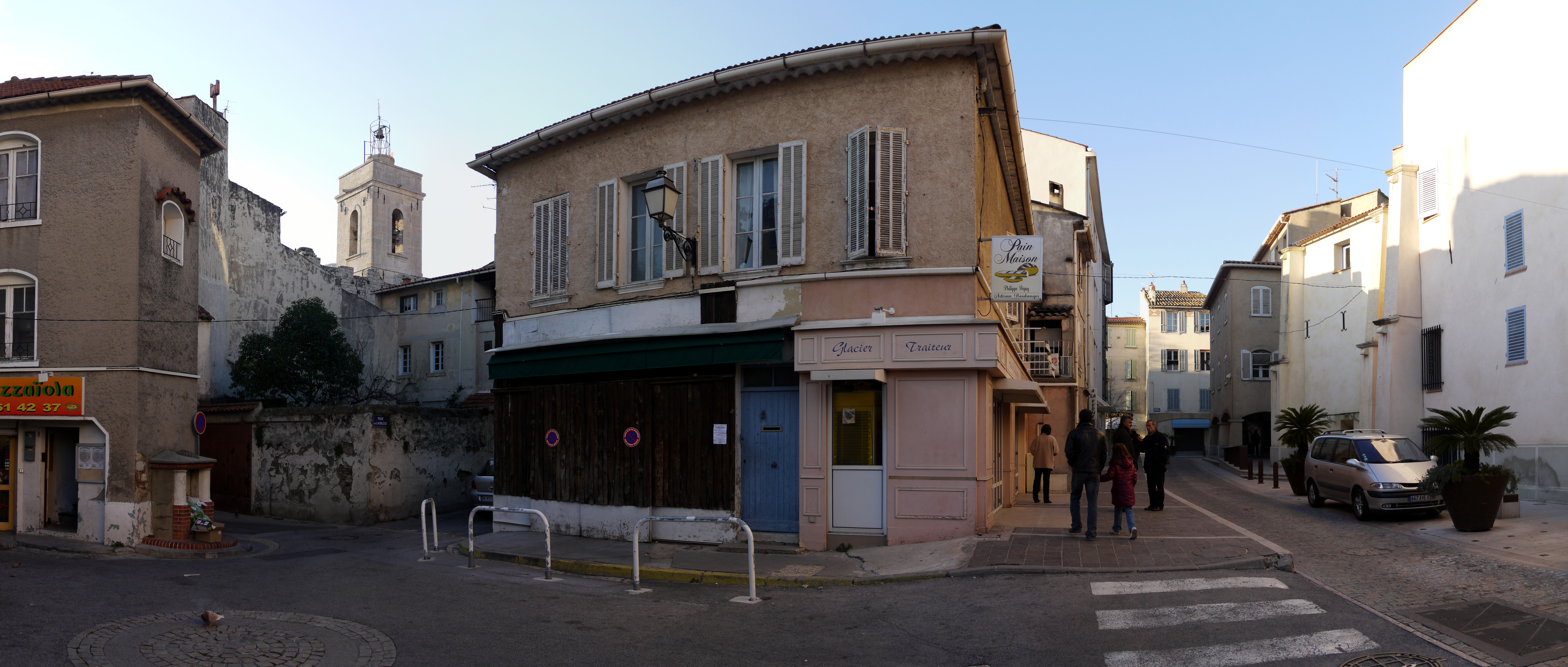 Photographs taken in La Valette du Var in France.